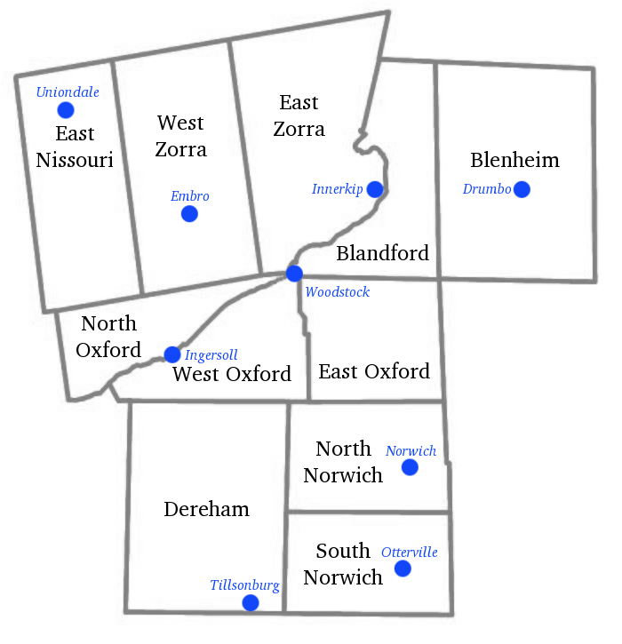 Townships in Oxford County as established in 1855. Late 1800s maps (now PD) were consulted, but the rendering of boundaries and community locations is for descriptive purposes whose location may not be exact.